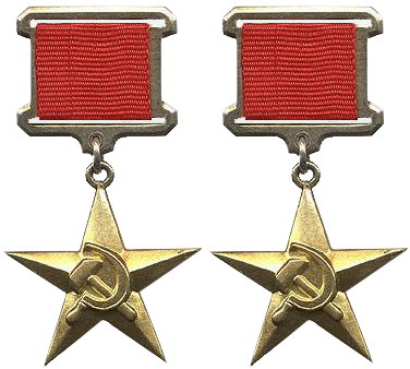 Two medals “Gold Star” of a “Hero of the Socialist Labour of the Soviet Union” (two-foul Hero of Labour USSR)